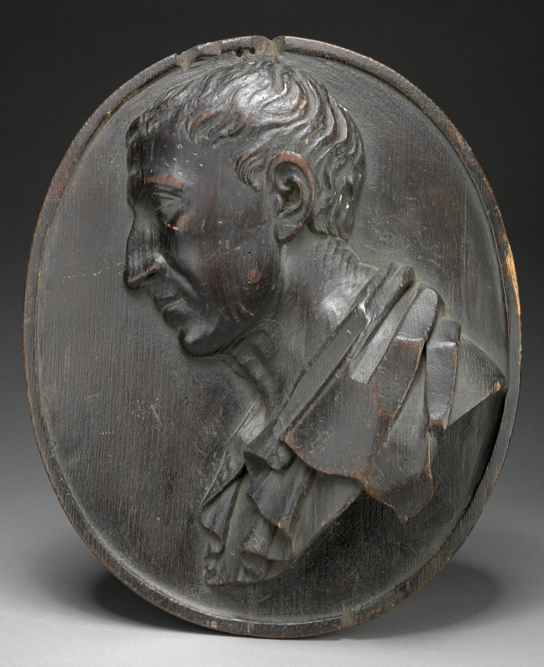 Self portrait wood 38.1 x 32.4 x 7.6 cm circa 1815